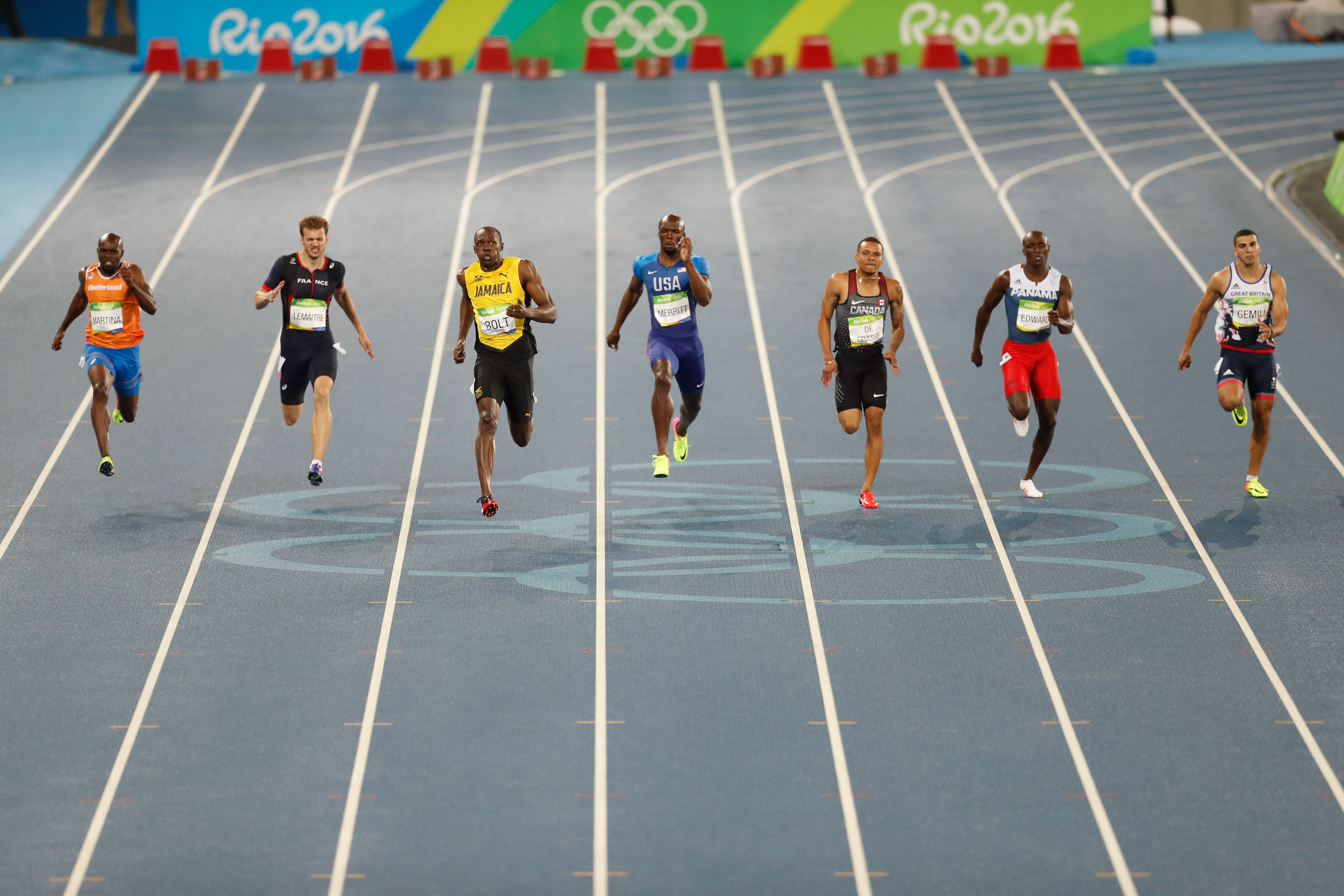 Rio de Janeiro - O Jamaicano Usain Bolt vence prova dos 200m rasos do atletismo e leva medalha de ouro nos Jogos Rio 2016, no Estádio Olímpico (Fernando Frazão/Agência Brasil)